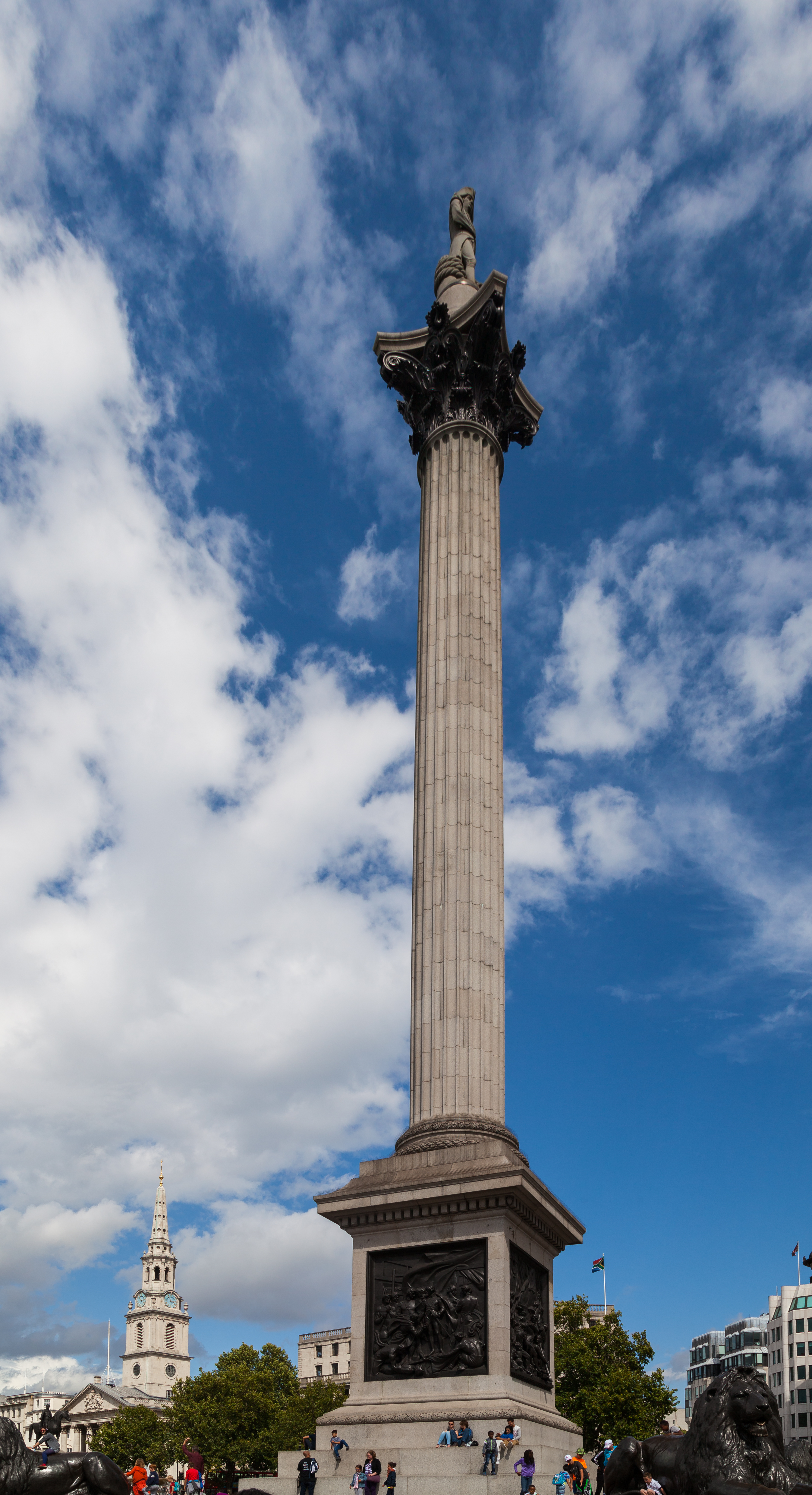 Nelson's Column, Trafalgar Square, London, England